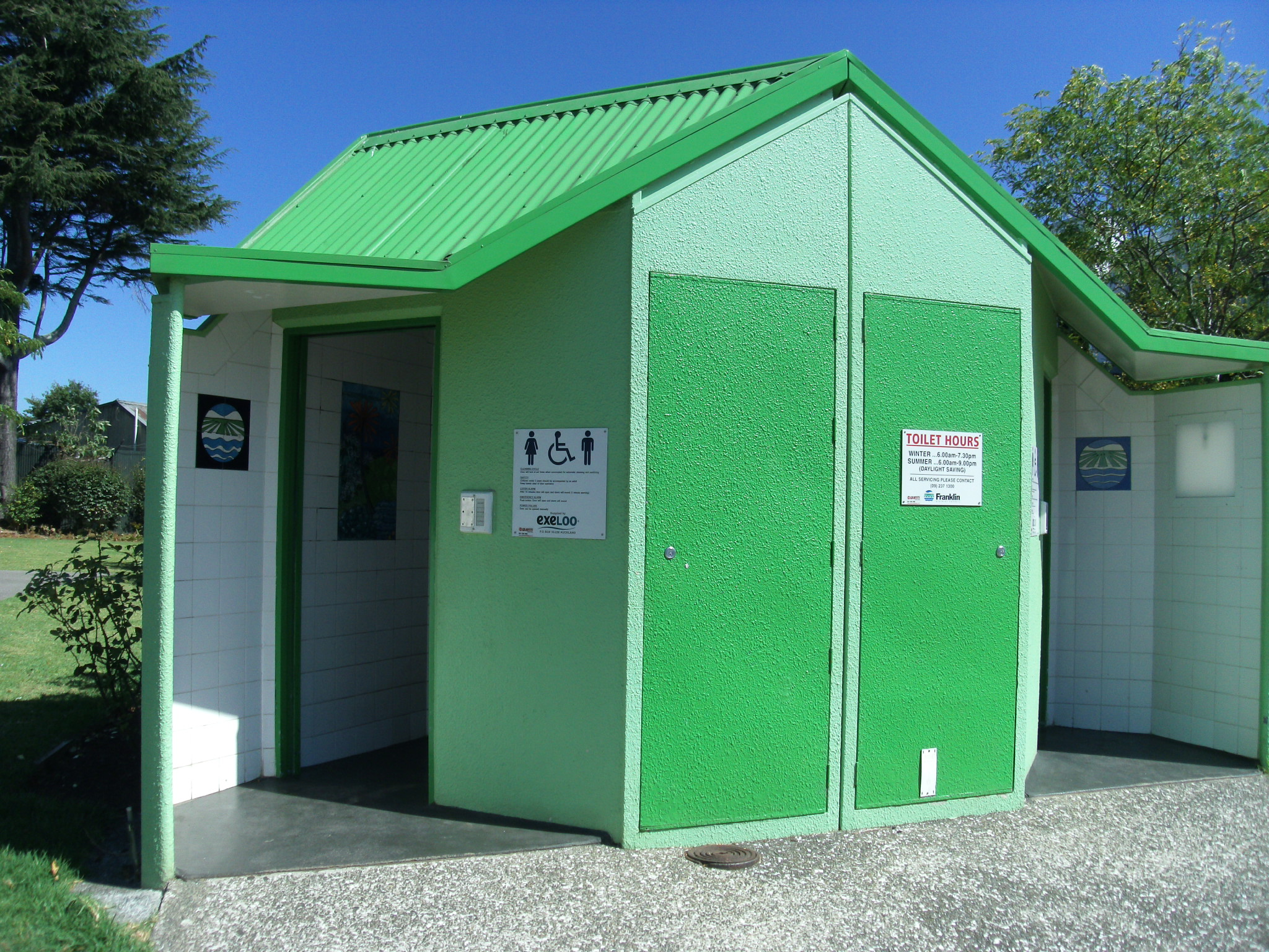 Public toilet in Pukekohe, New Zealand